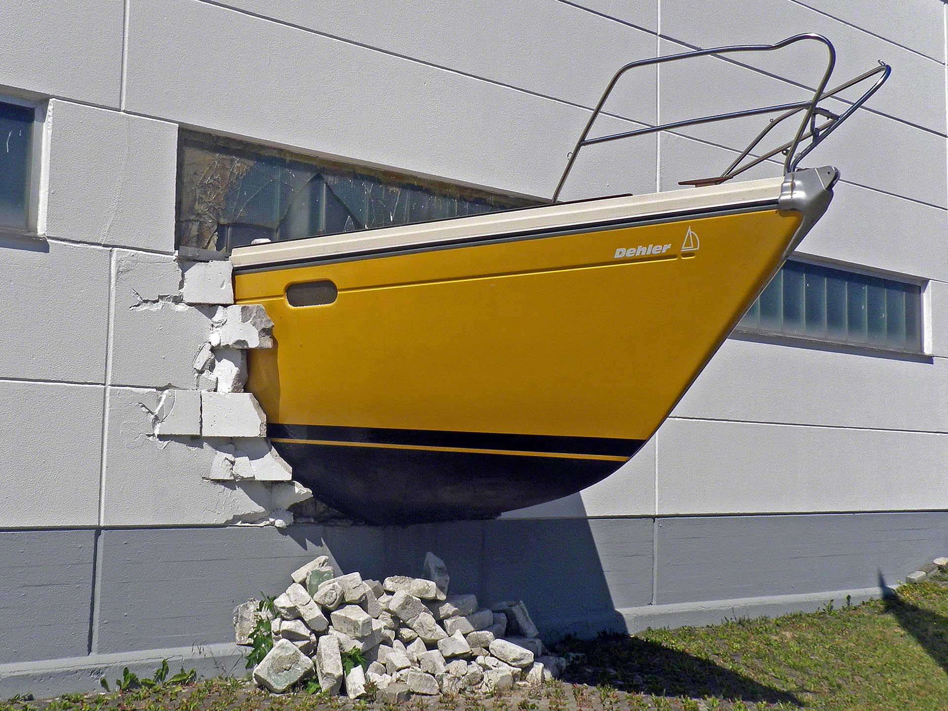 Sorry 'bout that